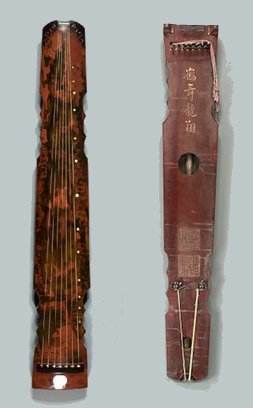 The guqin Hewu Longxiang in the lianzhu form. * Source: Copied from 'Image:Lian Zhu Shi.jpg' on the English wikipedia (uploaded by user:CharlieHuang on 25 August 2005). Rotated 90 degrees counter-clockwise by Raul654. Original caption: "Image from a photograph of a friend in China." *License: GFDLBack of the qin Hewu Longxiang (鶴舞龍翔) This is a retouched picture, which means that it has been digitally altered from its original version. Modifications: {1 }.